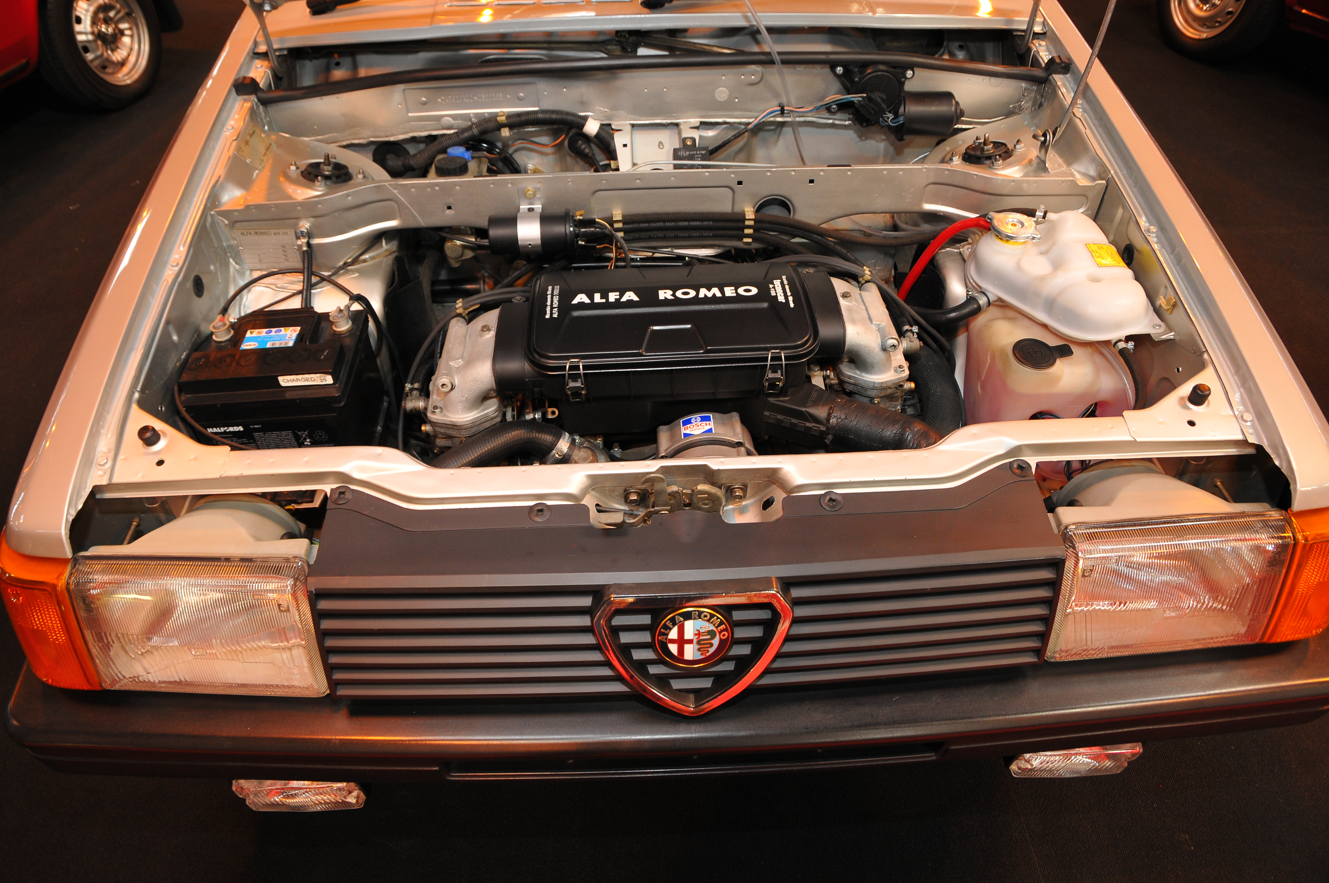 2011 NEC Classic Car Show Alfa Romeo Arna